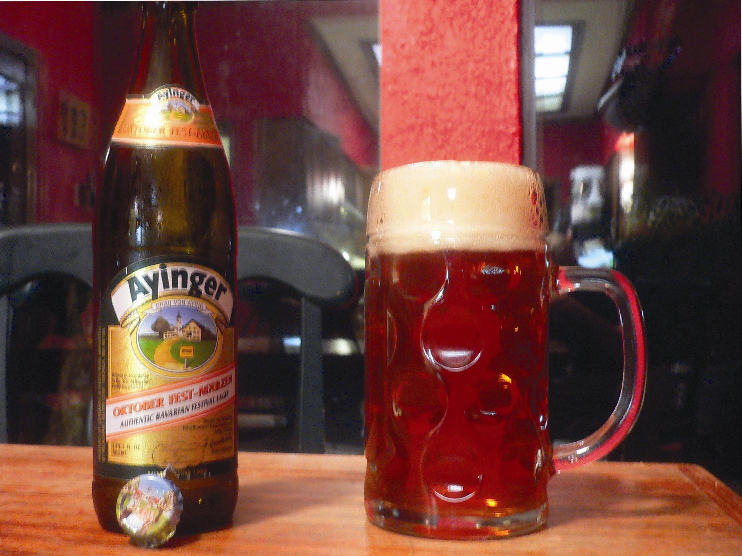 Ayinger Oktoberfest